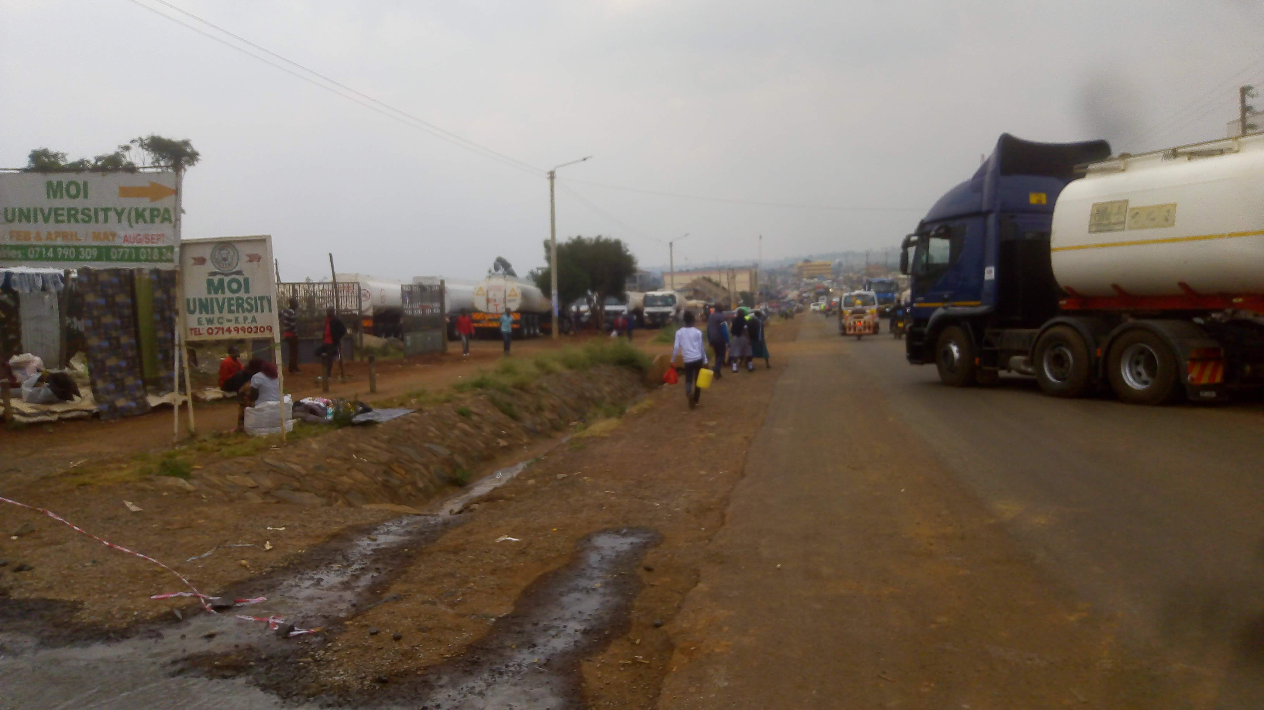 An oil tank truck in Uasin-Gishu county, Rift Valley This is an image with the theme "Africa on the Move or Transport" from: Kenya